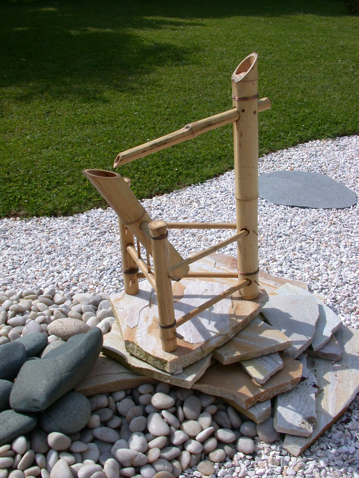 Bamboo fountain in a private garden